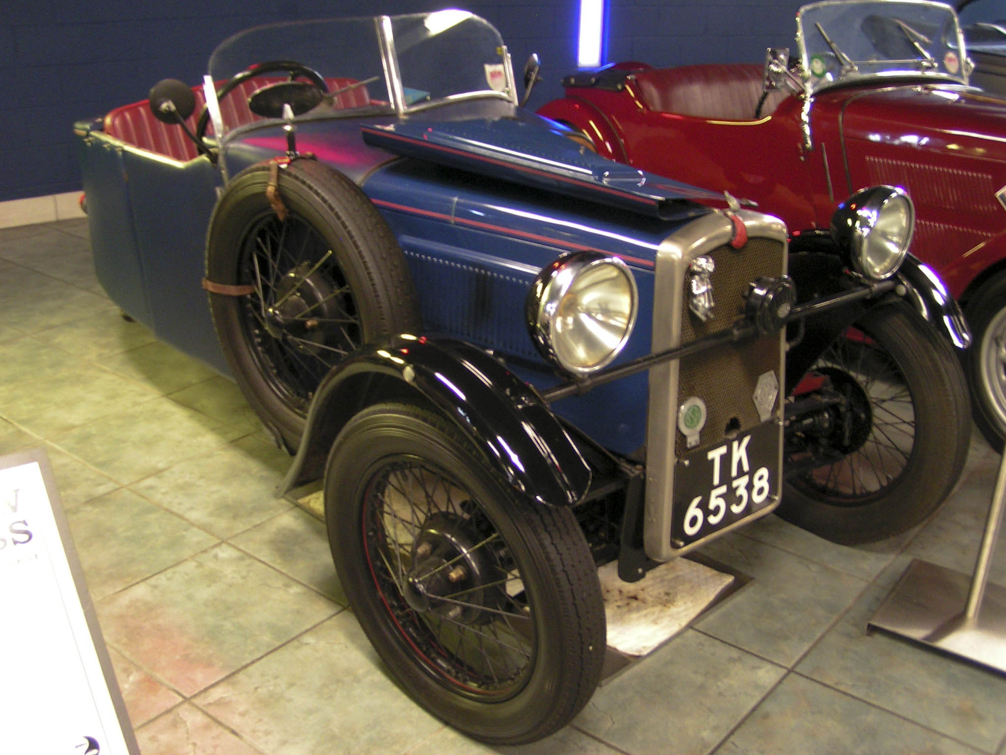 BSA Three Wheeler. Powered by aircooled V2 engine with front wheel drive. BSA stands for Birmingham Small Arms.